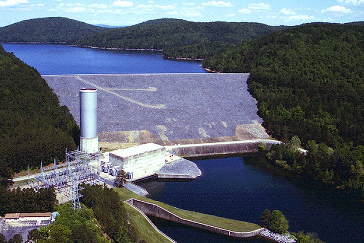 Blakely Mountain Dam on the Ouachita River in Garland County, Arkansas, USA. The dam impounds the Ouachita Reservoir, a large reservoir in Central Arkansas. The dam was constructed by the U.S. Army Corps of Engineers and completed in 1953. The dam has a hydroelectric power plant capable of producing 75 MW of power.